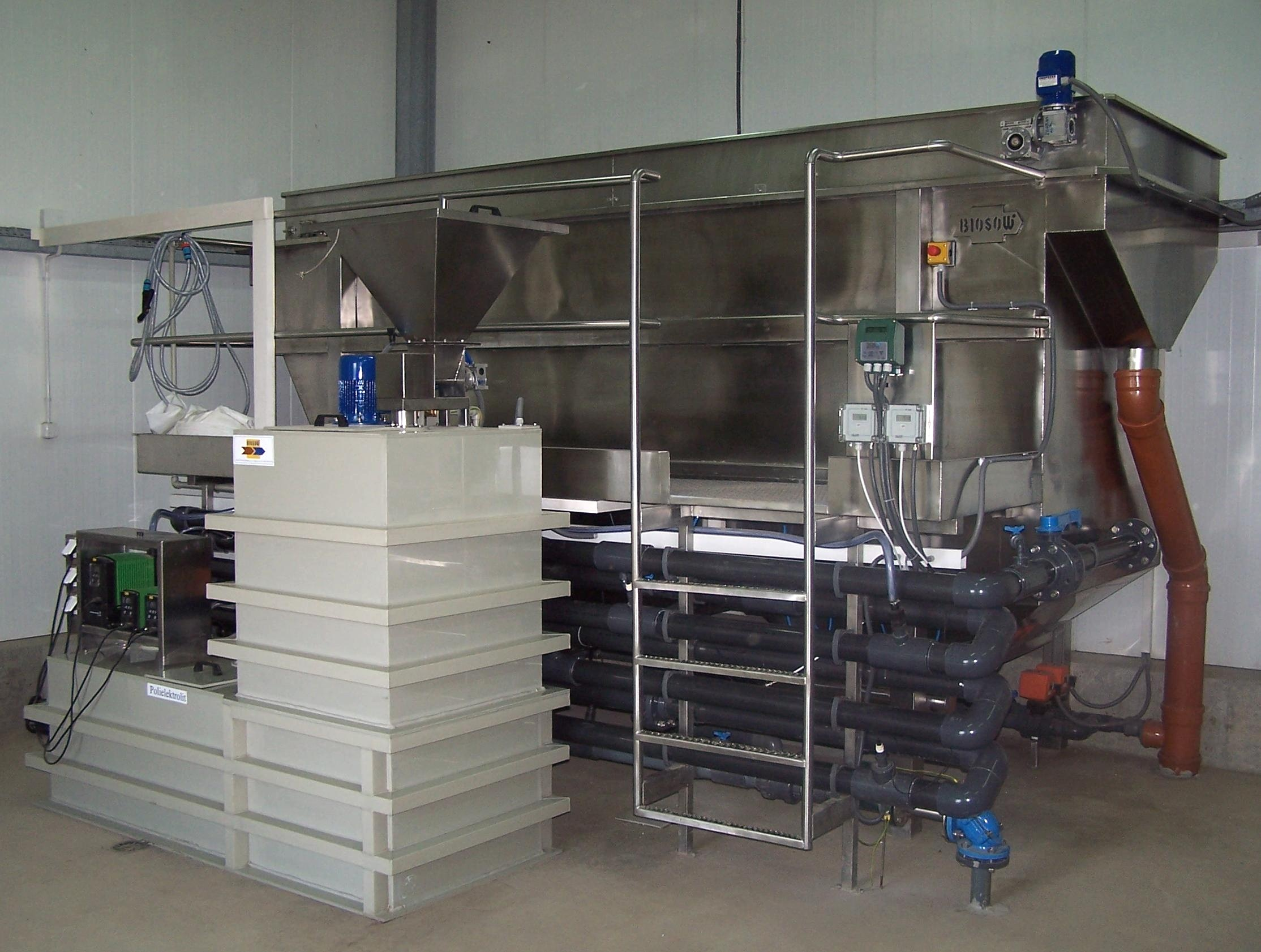 Dissolved air flotation unit with a capacity of 20 m3 / h (in operation at wastewater treatment plant for slaughterhouse), visible also: flocculant preparation station and pipe flocculator